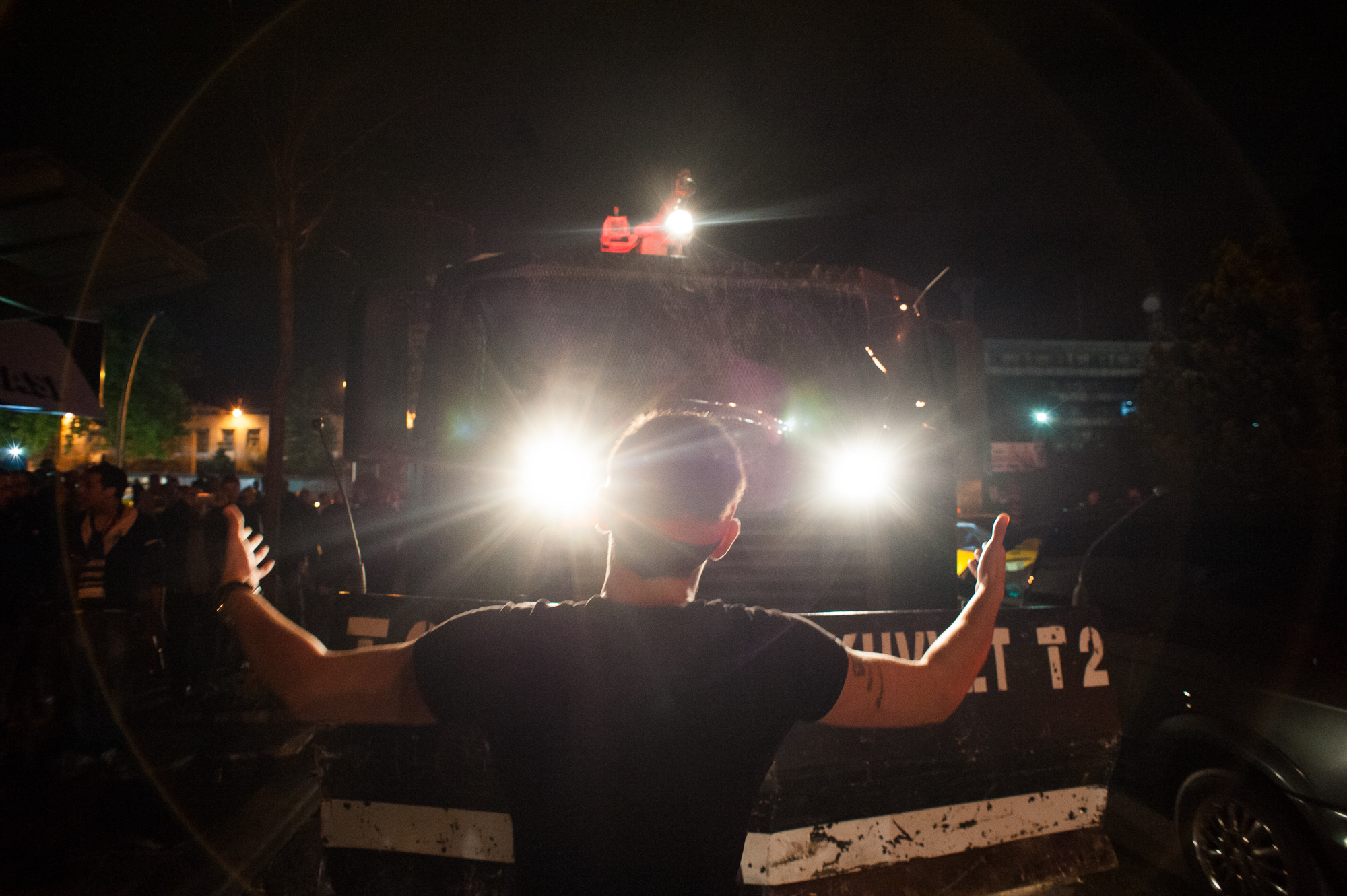 Clashes with police during nighttime protests in Ankara. Events of June 7-8, 2013.